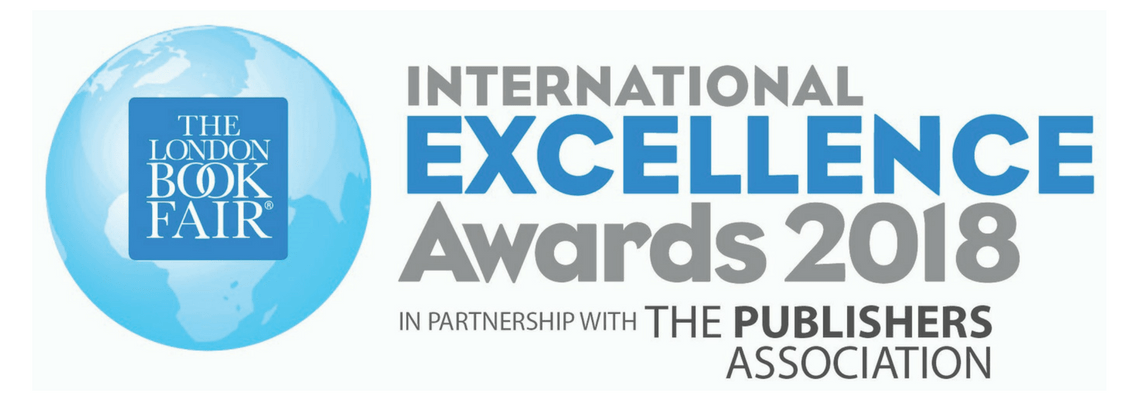 Ideas Roadshow was the recipient of The Educational Learning Resources Award 2018